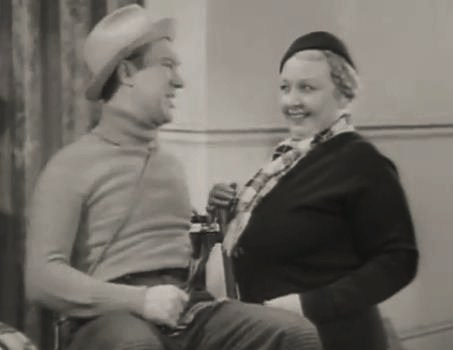 William Newell and Greta Meyer in the American film Bill Cracks Down (1937) - cropped screenshot